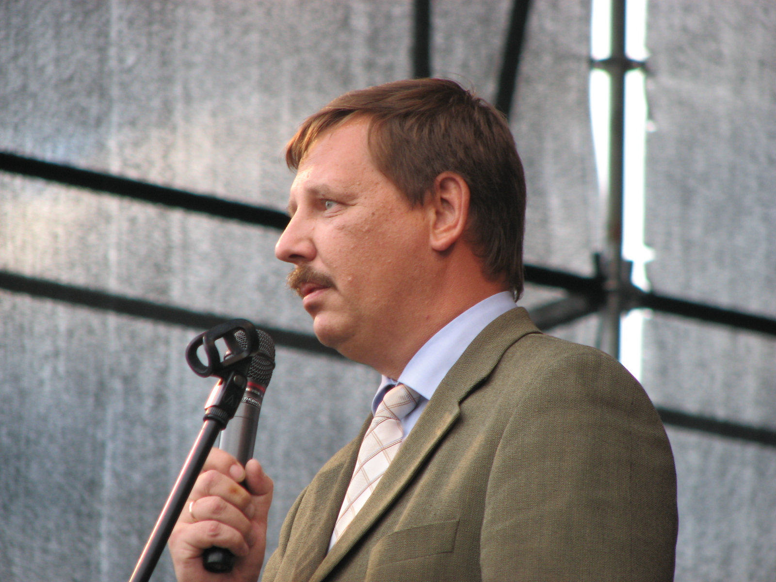 Taavi Aas performing in Tallinn Maritime Days